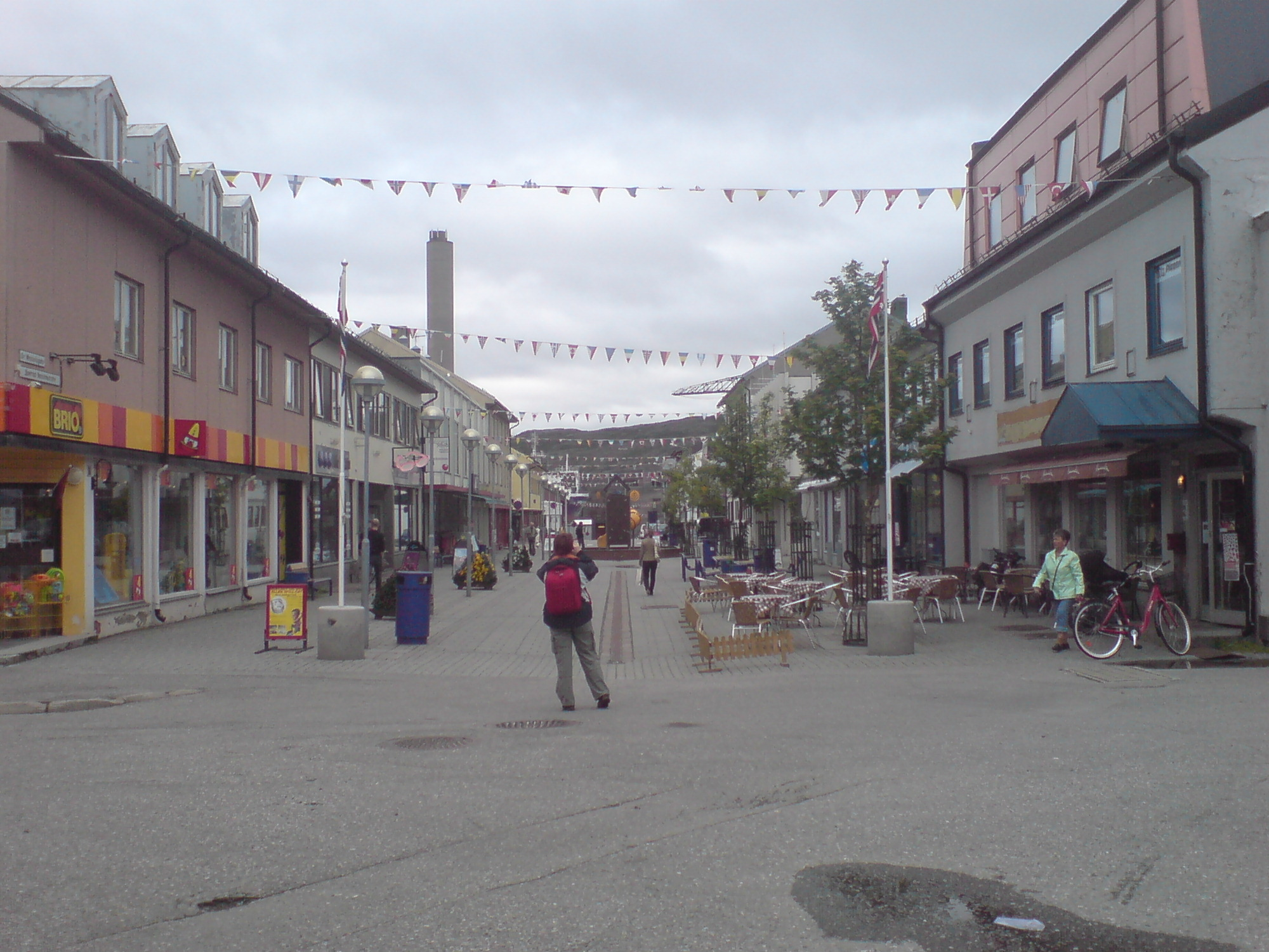 The promenade in Kirkenes, Norway